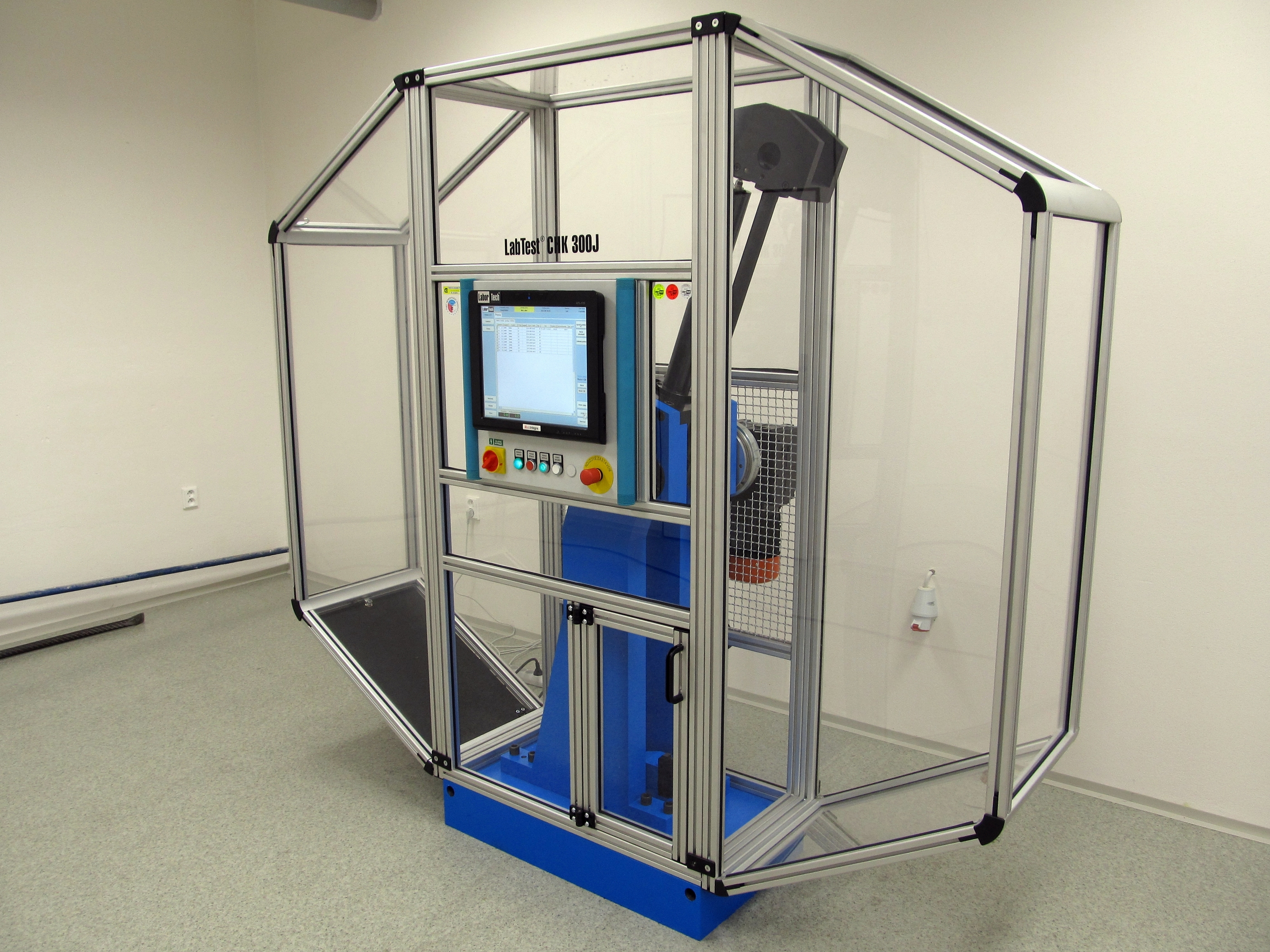 Młot Charpy'ego (Labortech)